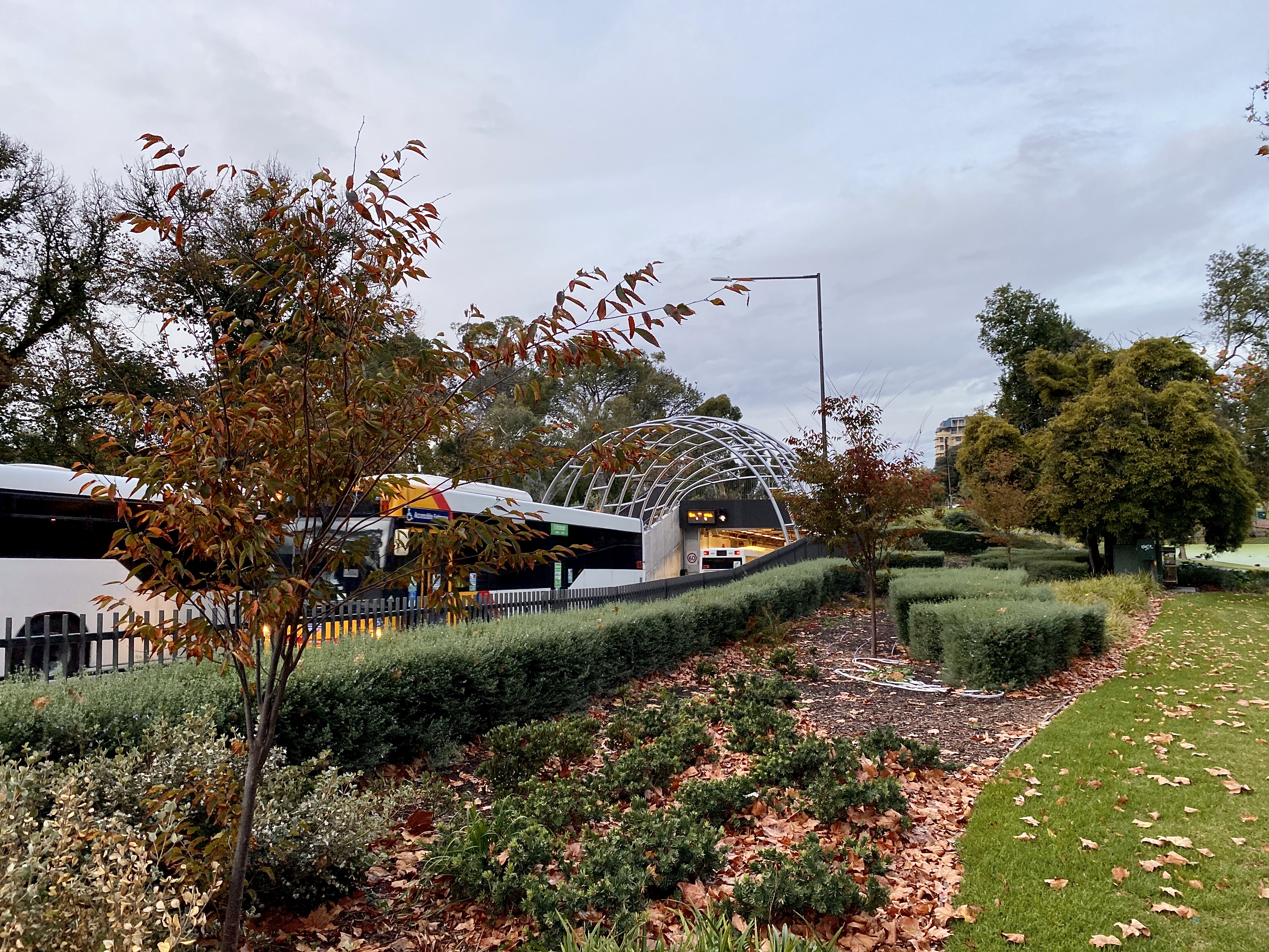 Adelaide's O-Bahn tunnel passes under the Botanic Road intersection, then curves west under Rundle Park, Rundle Road and surfaces in Rymill Park leading to a redesigned intersection at Grenfell Street and East Terrace.